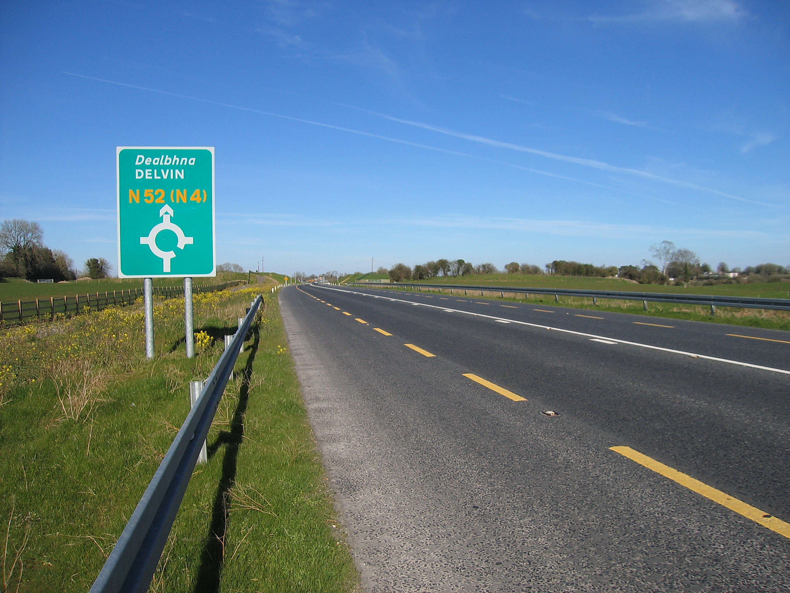 Near Mullingar, County Westmeath, 3 km from Lynnbury, Ireland. The N52 new road between the M6 and Mullingar (near the Mullingar end)